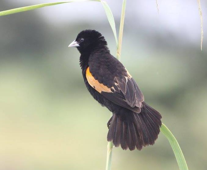 A male Fan-tailed widowbird (in breeding plumage) at Linunga, Angola